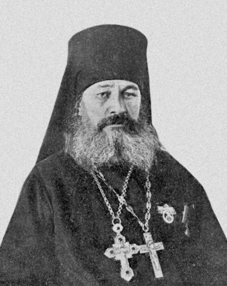 painting.